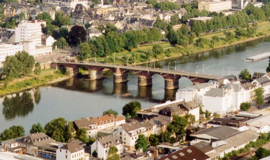 Römerbrücke in Trier, Germany